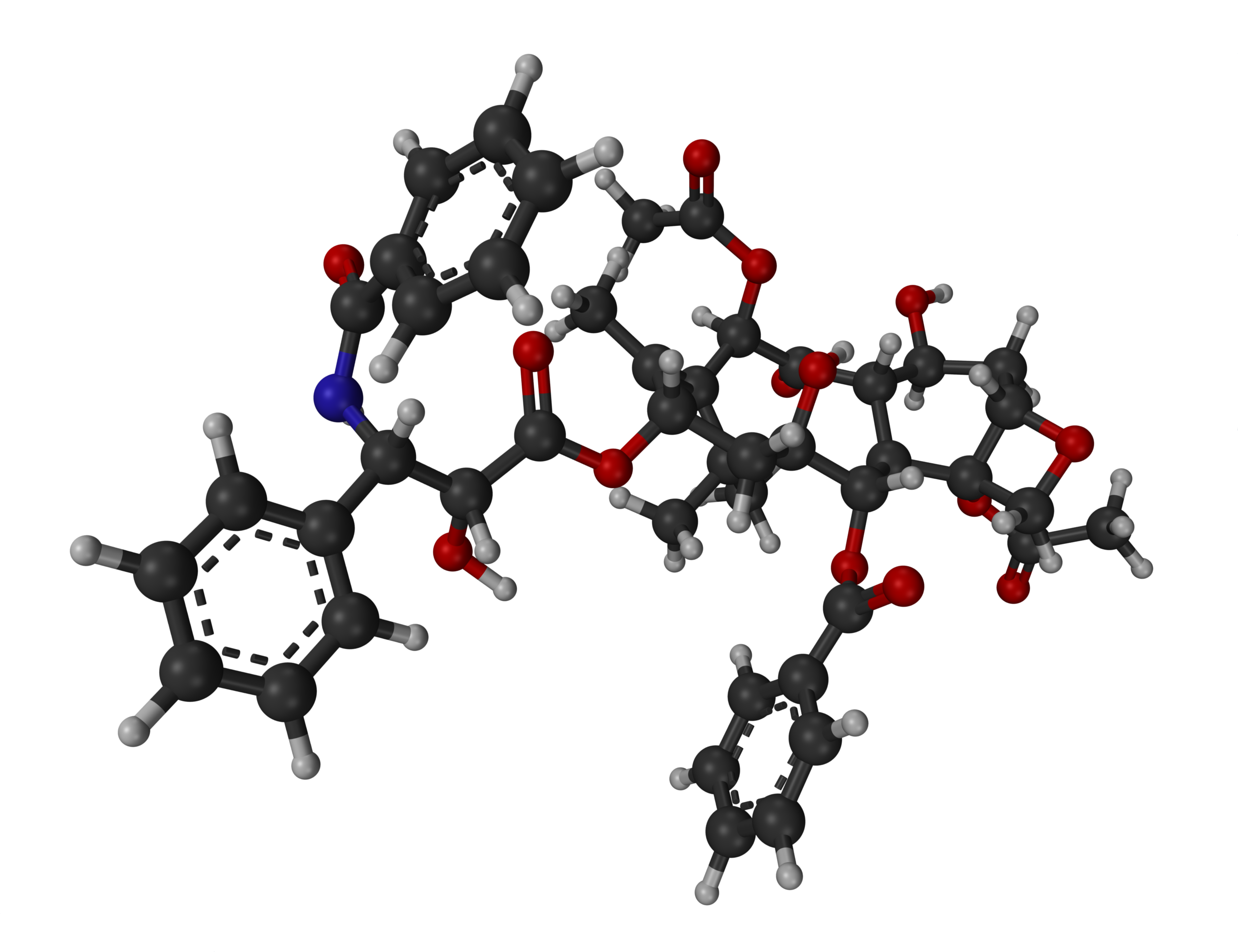 3D model of Taxol (Paclitaxel) molecule created for .pdb file.